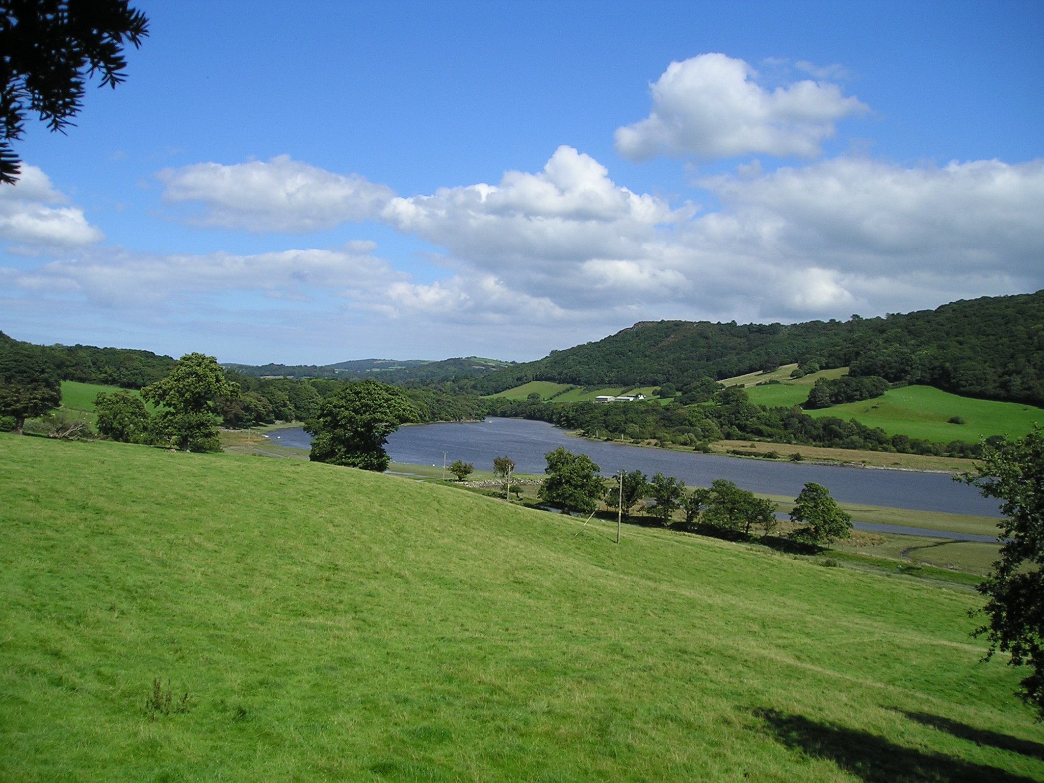 photograph taken by me, Noel walley